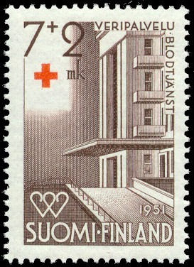 Red Cross Hospital in Helsinki - current Töölö hospital